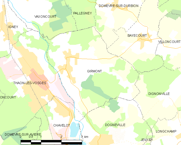 Map of French municipality Girmont